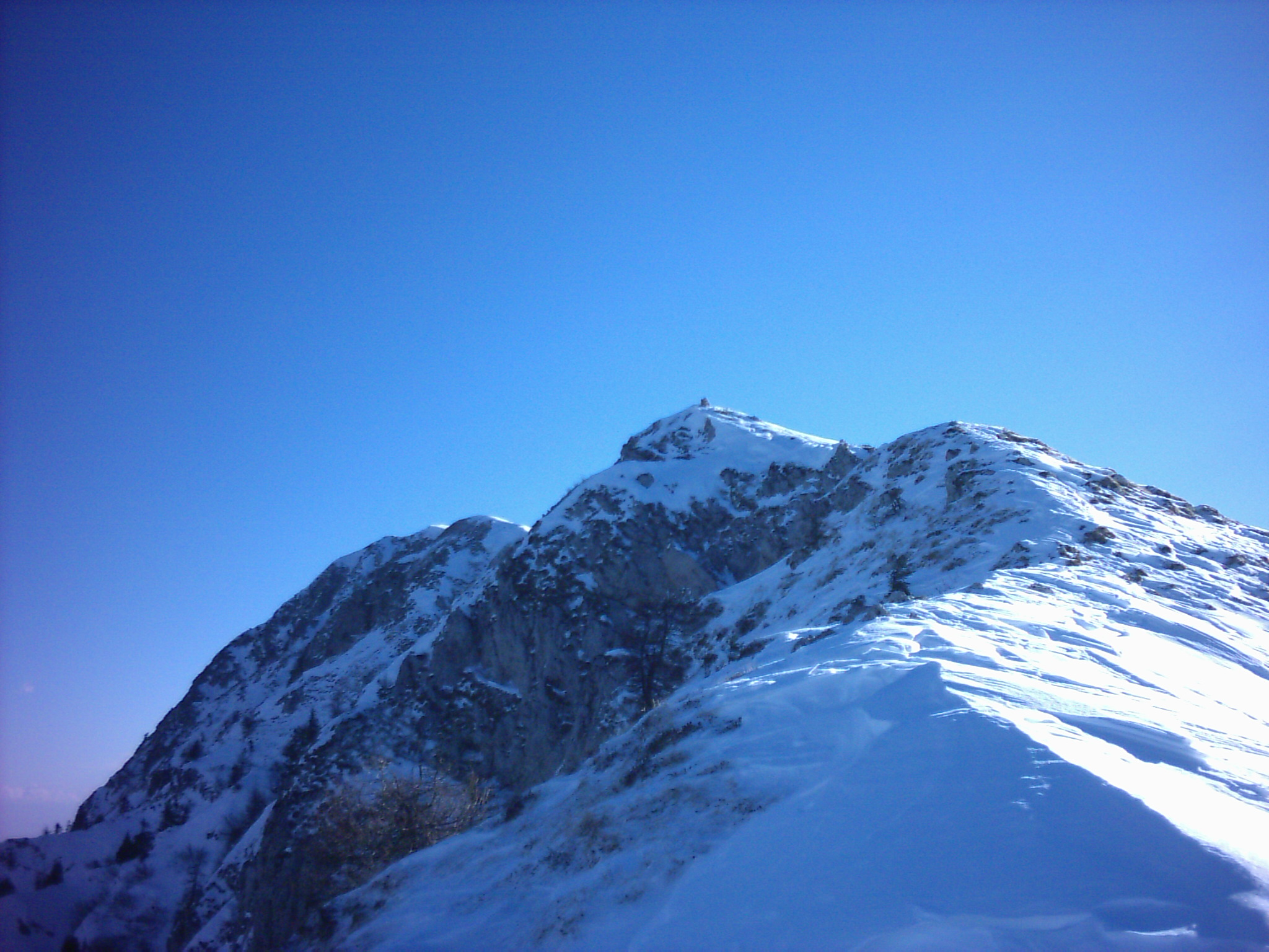 Mount Guglielmo or Gölem (1957 m): Dosso Pedalta, the highest summit of the mountain